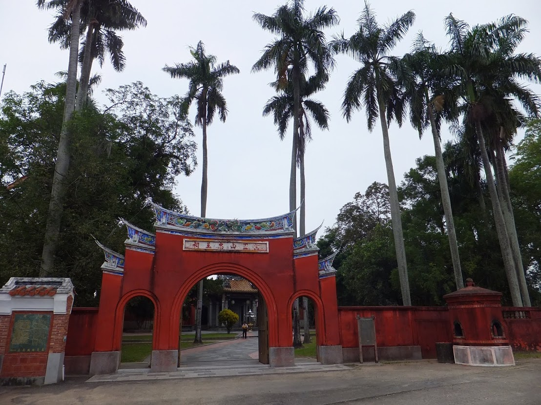 Wu Feng's Mausoleum中文（台灣）: 嘉義吳鳳廟